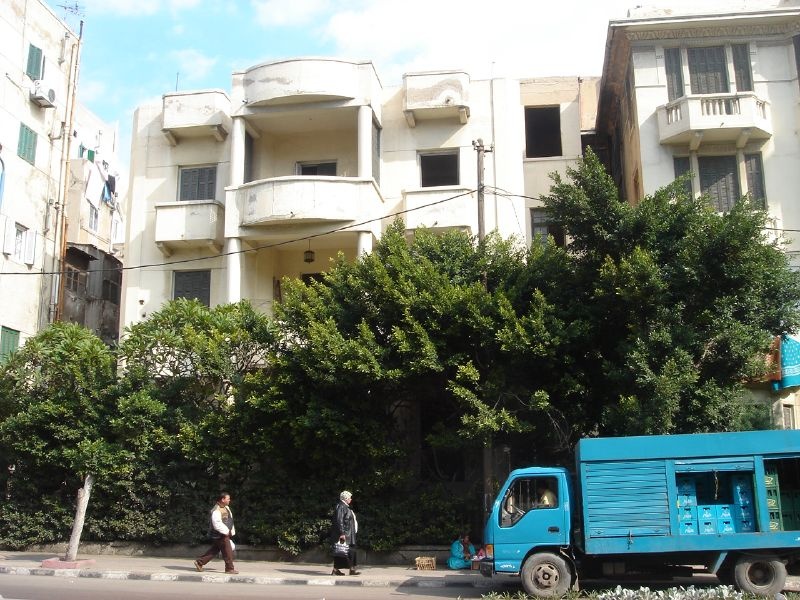 37 ave. Sidi Gaber - home of Moise Lisbona